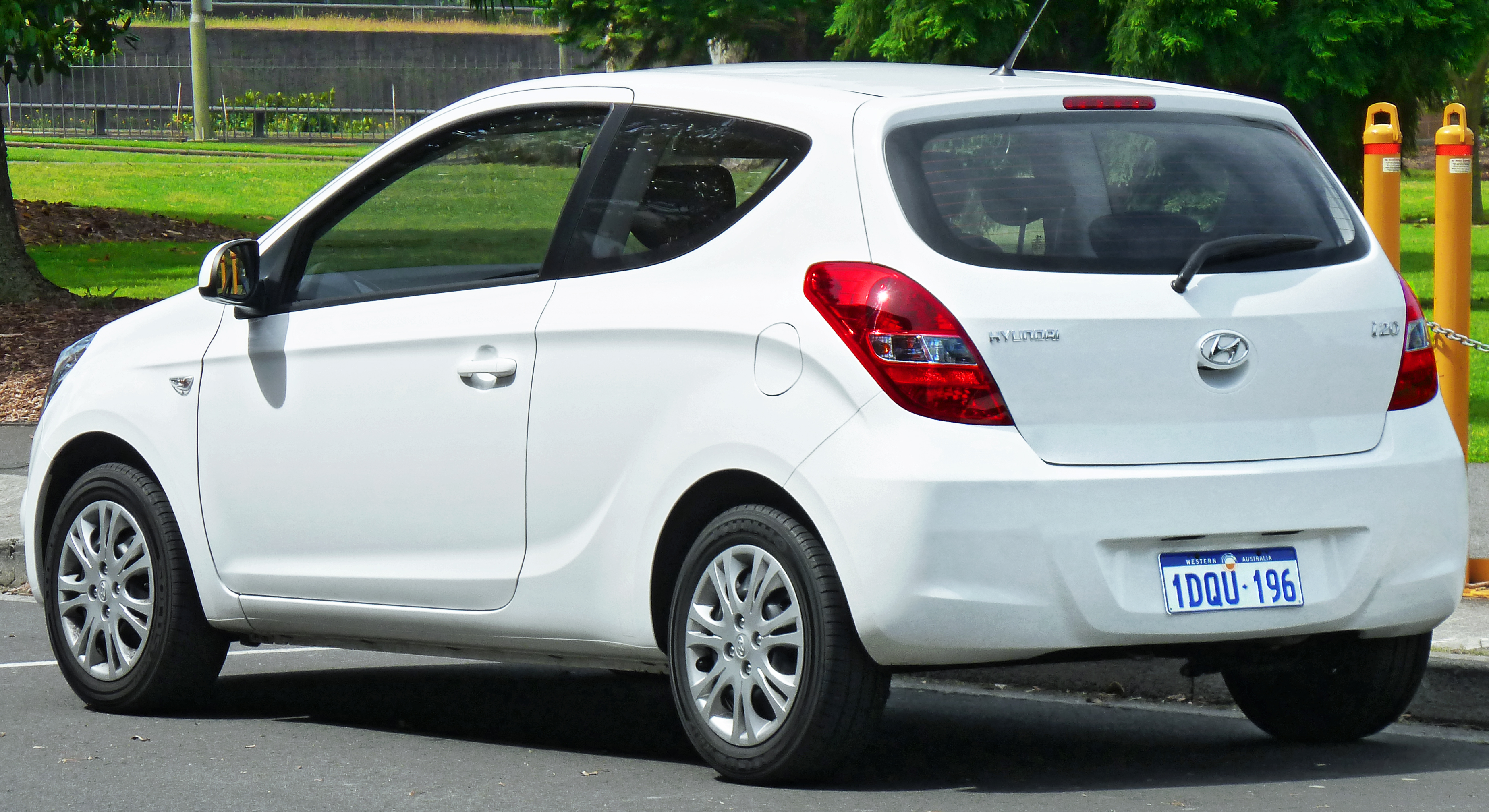 2010–2011 Hyundai i20 (PB) Active 3-door hatchback. Photographed in Sydney, New South Wales, Australia.